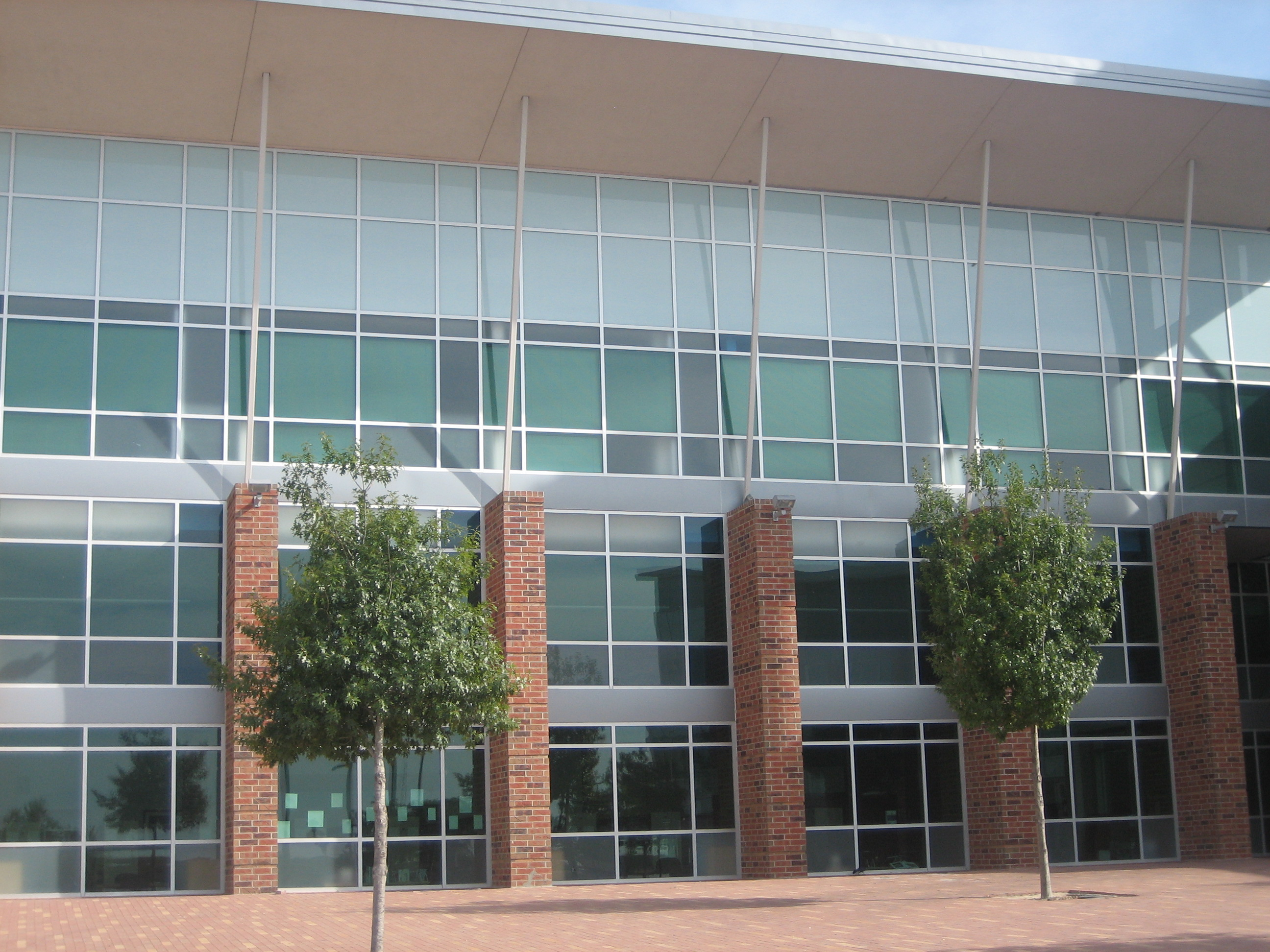 I took photo on July 5, 2009.